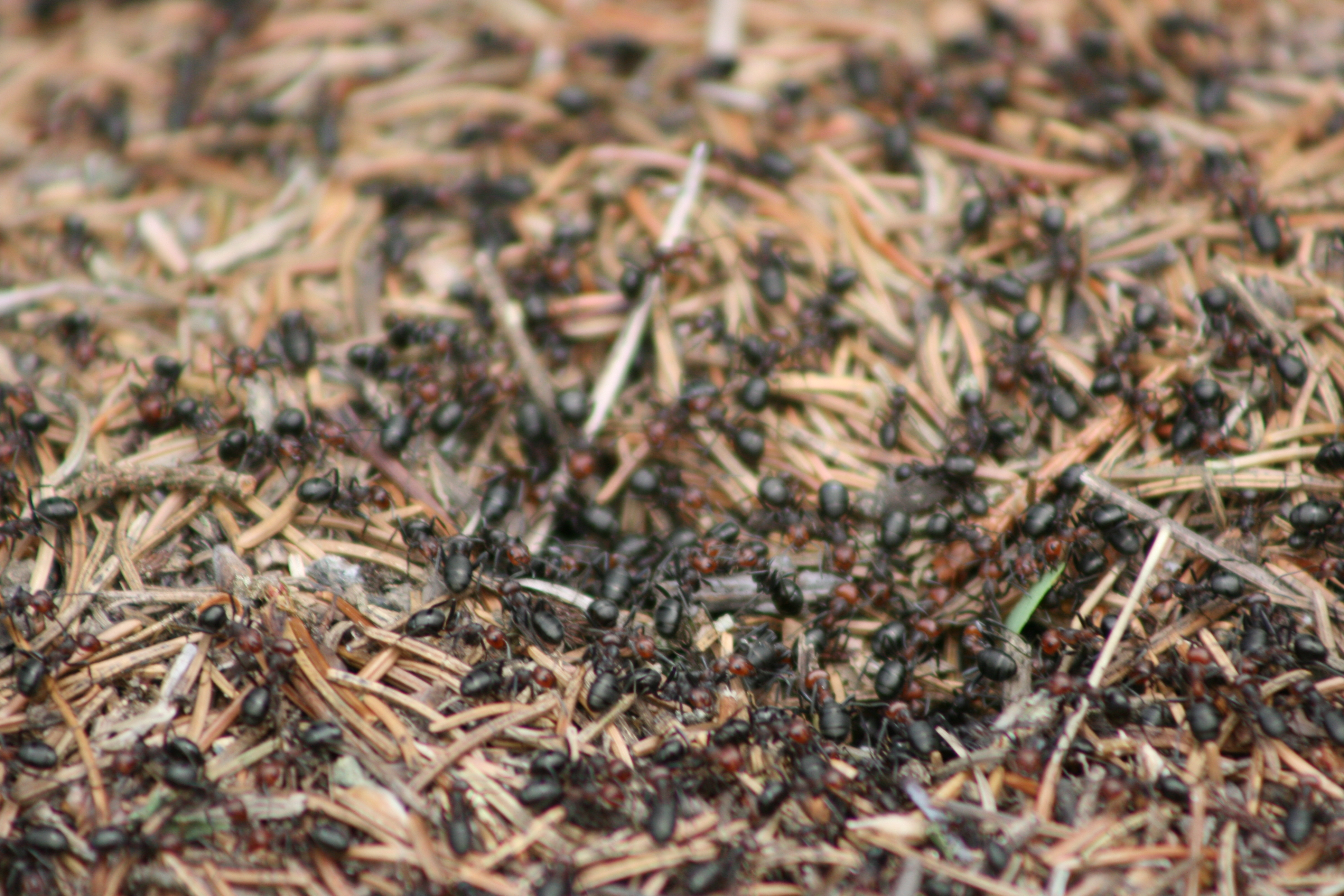 Allegheny mound ants (Formica exsectoides) in a colony at Fort Custer Recreation Area. Moderately disturbed. Log details: Fort Custer (Augusta, Michigan) 10 May 2008 ID resource – Bugs @ OSU